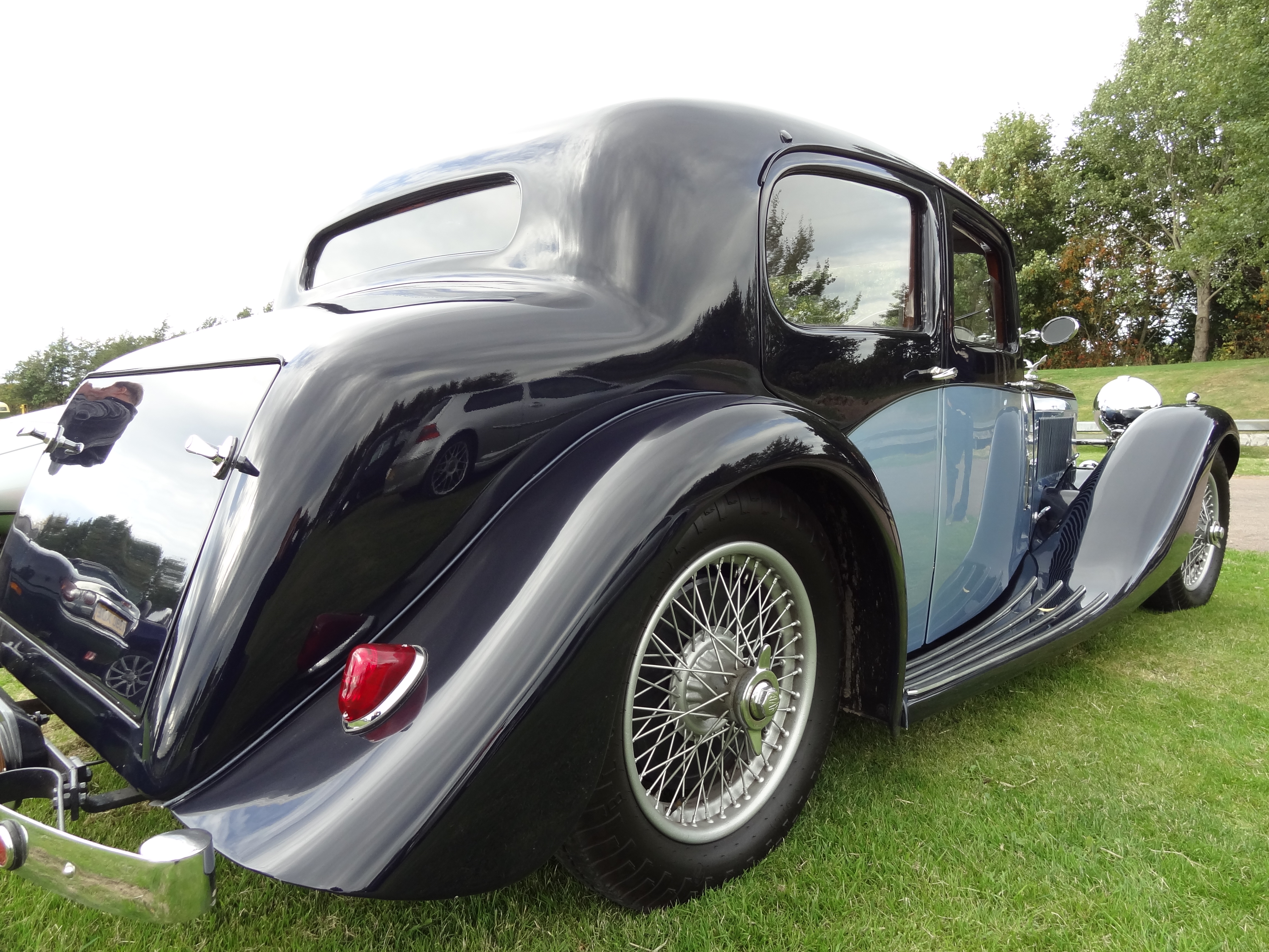 Alvis Speed Twenty SD 1936 by Lancefield(DVLA) first registered 31 December 1936, 2762cc